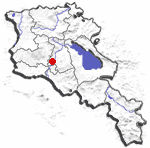 Location map for Byureghavan, Armenia. Made using Aramgutang's template.